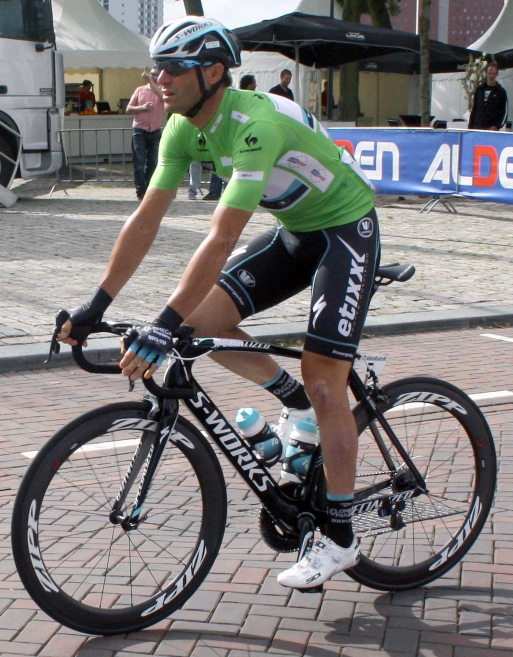 Alessandro Petacchi before the start of stage 2 of the World Ports Classic 2013